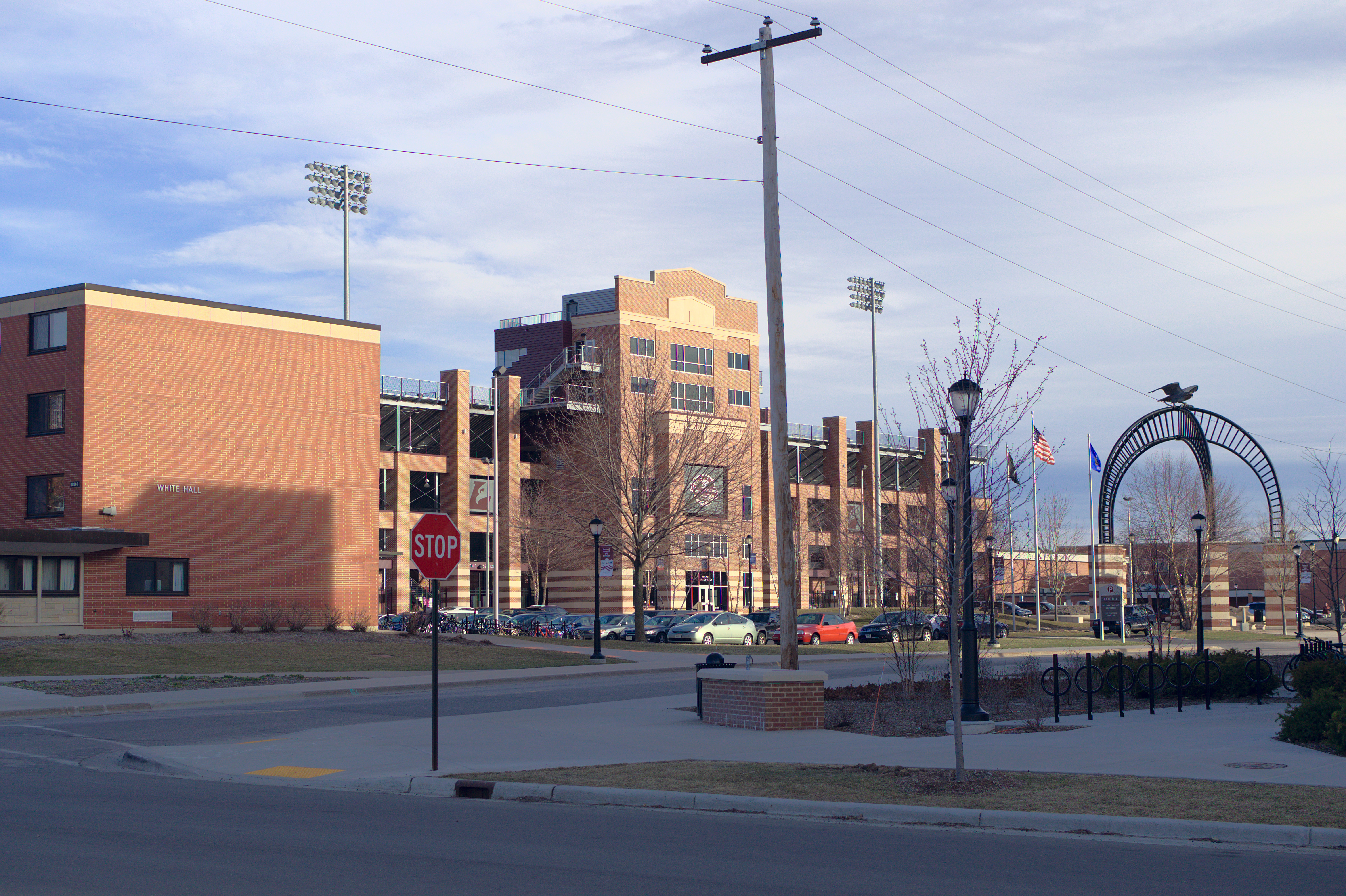 White Hall, the oldest residence hall on campus, was completed in 1961.